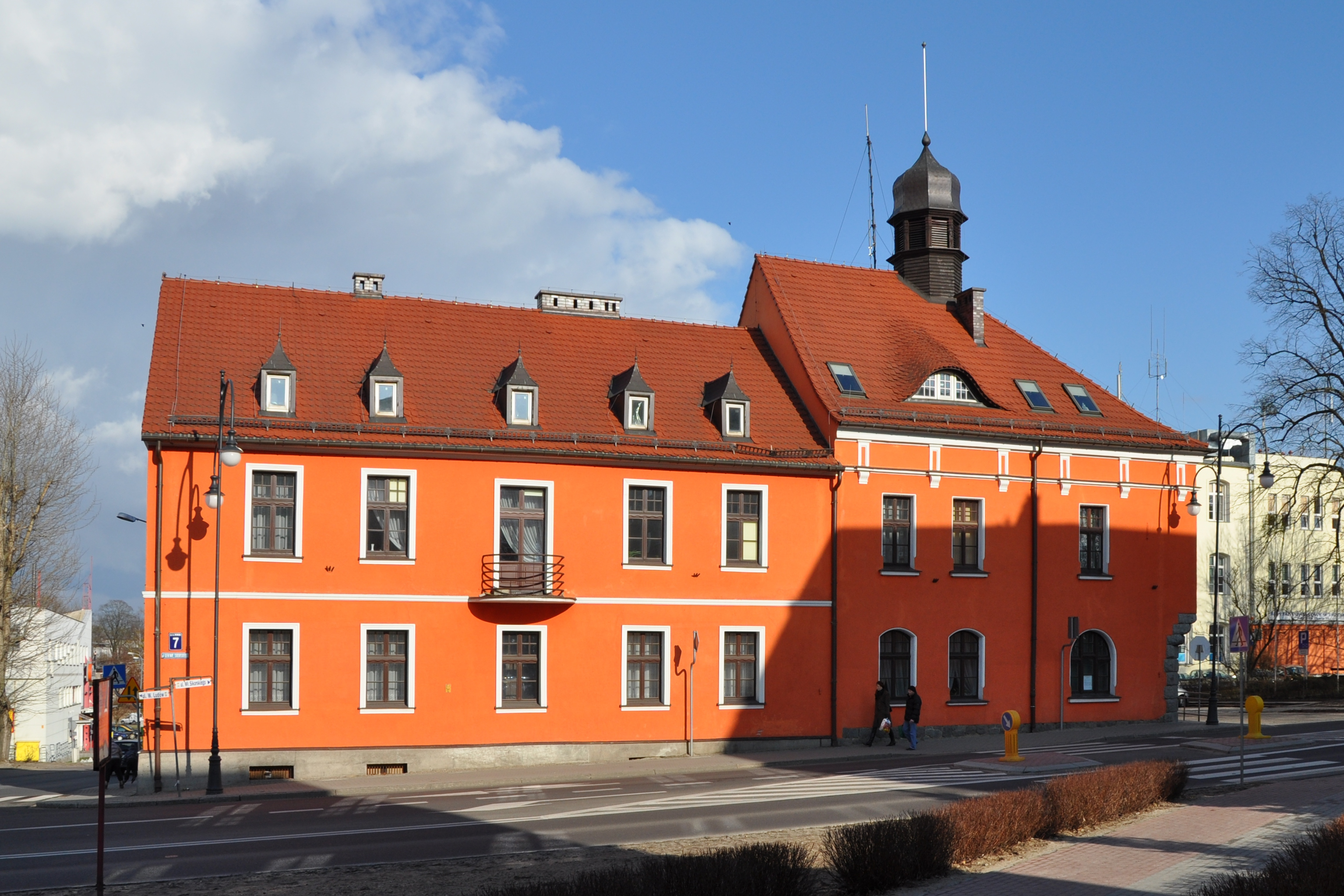 Trzcianka Town Hall, west wall side